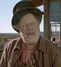 Edgar Buchanan in McLintock! (cropped screenshot)